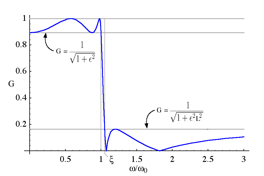 Gain of a 4th order elliptical filter versus normalized frequency with ε=0.5 and ξ=1.05. Also shown are the minimum gain in the passband and the maximum gain in the stop band, and the transition region between 1 and ξ in normalized frequency.